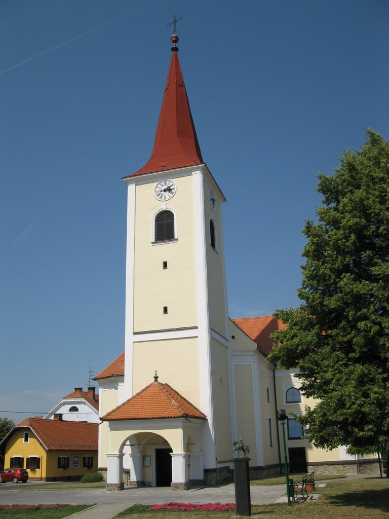 Sveti Tomaž, settlement in Slovenia